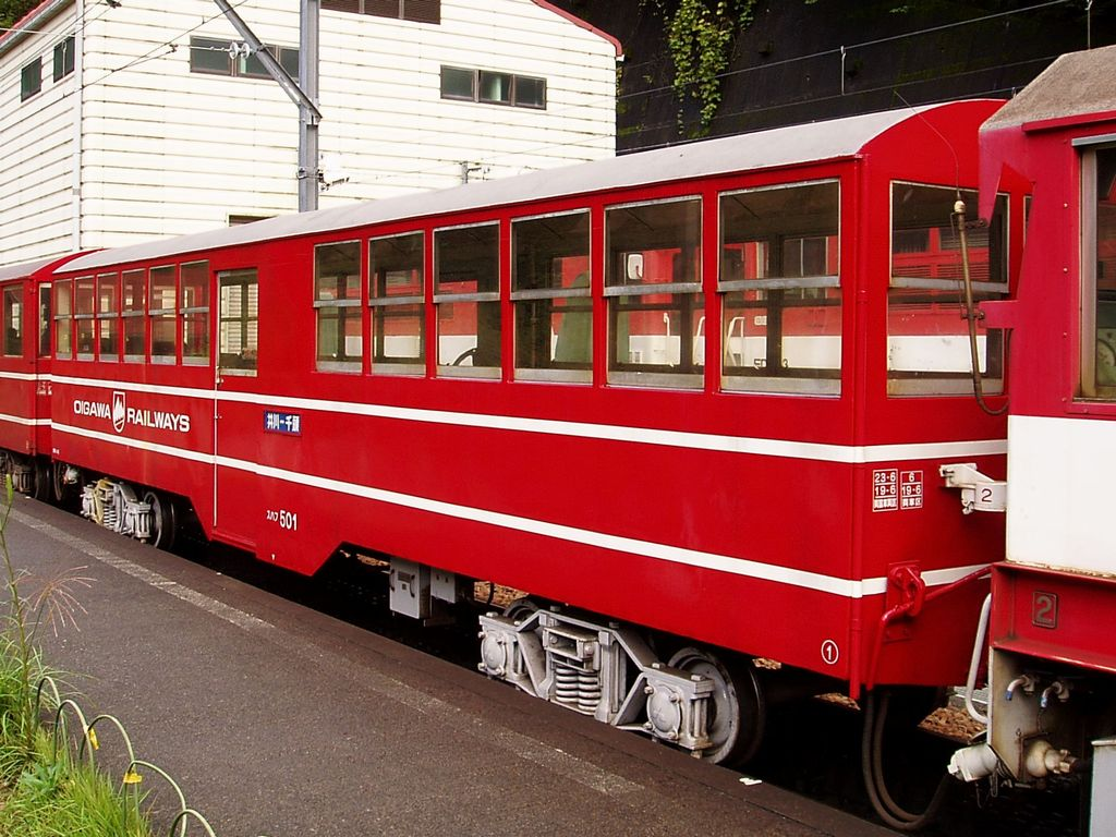 Oigawa Railway type Sufafu501. at ABT-Ichishiro Sta. 2007.10.09 Photo by Cassiopeia_sweet.